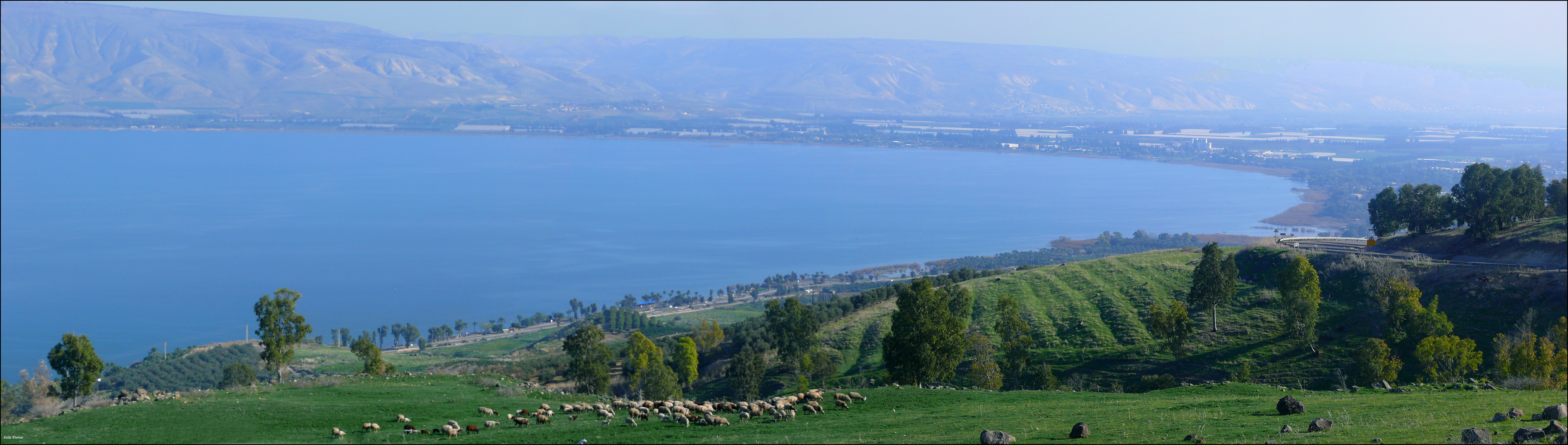 Kinnereth (Sea of Galilee), Israel - panorama of the southern end, February 5th, 2014